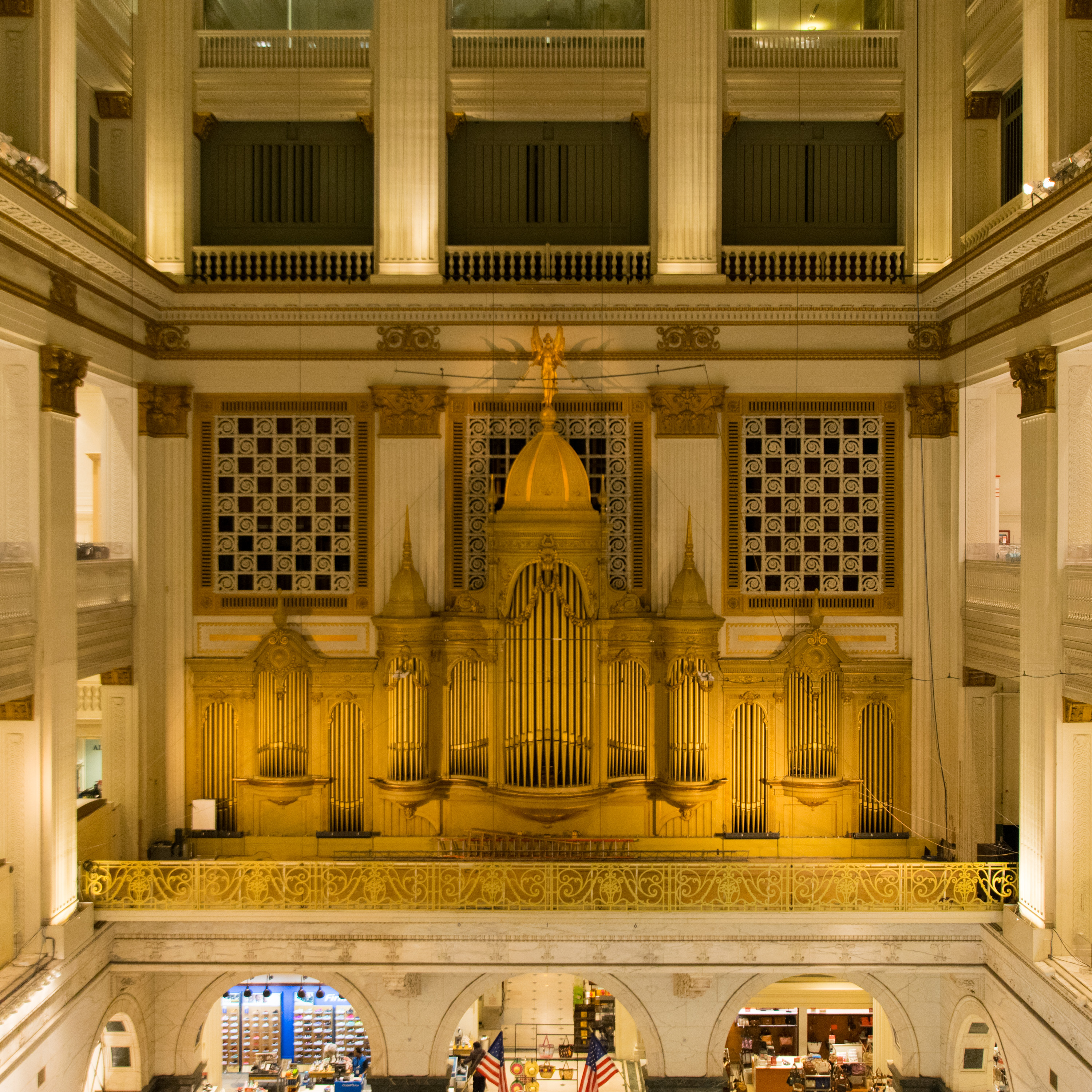 Detail of Wanamaker Organ